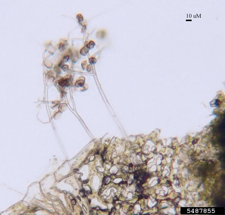 Rubus argutus 'Black Satin' Sporangia and sporangiophores of Peronospora_sparsa on host tissue.